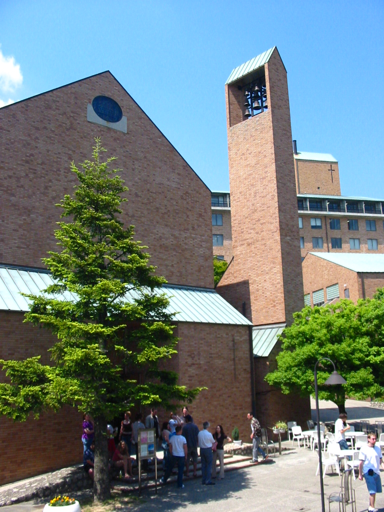 Kobe Shoin Women's University main campus, with the chapel at left with a group of students and faculty from the University of Delaware gathered outside.